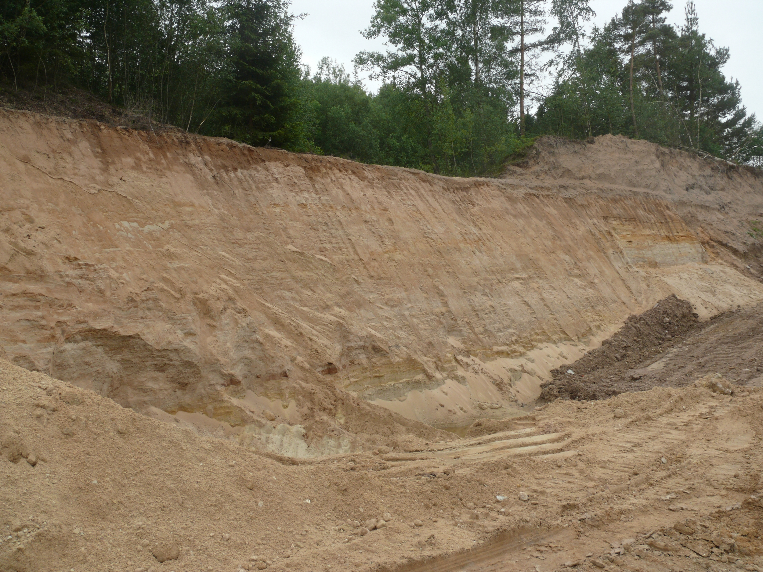 pleistocene Goldshöfer Sande, sandpit in Dietrichsweiler N of Ellwangen at river Jagst.